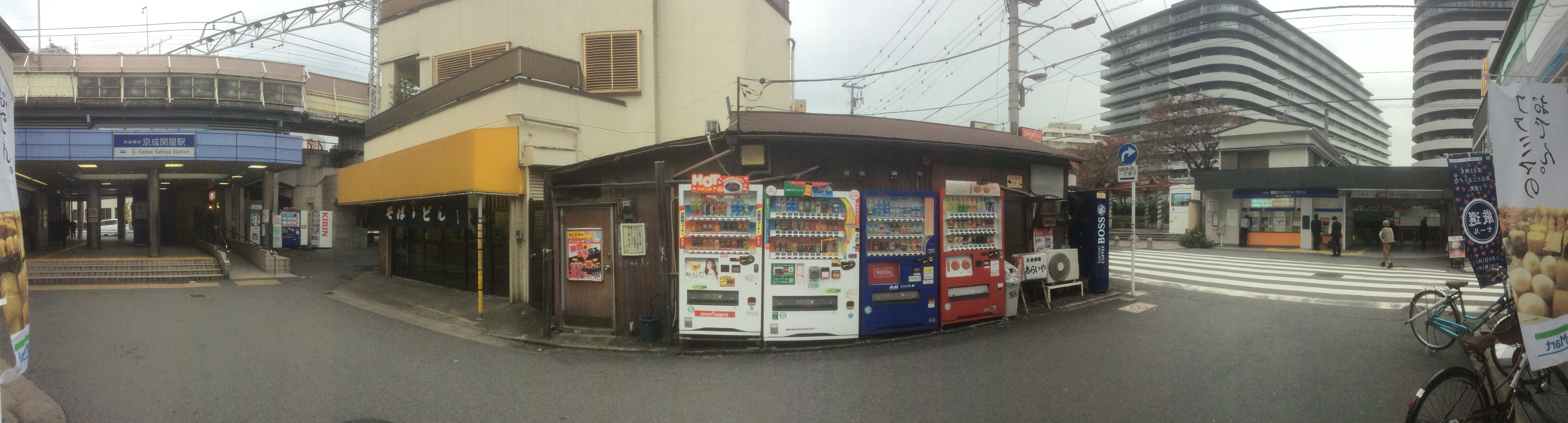 Keisei Sekiya and Ushida stations in Adachi, Tokyo, Japan